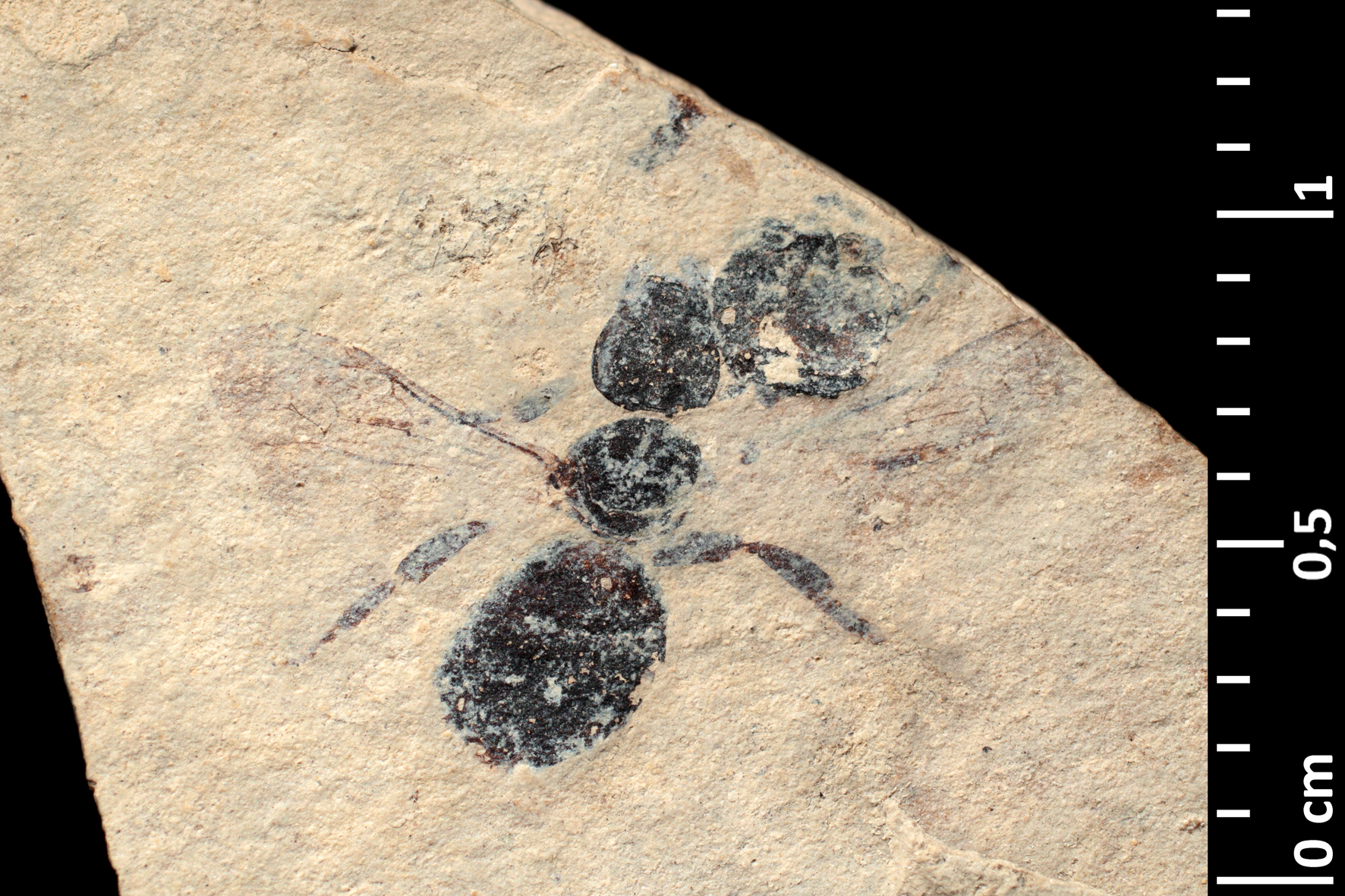 The Lasioglossum celinae holotype with direct lighting. Rupelian, Oligocene; Manosque, bois d'Asson, Alpes-de-Haute-Provence, Provence-Alpes-Côte d'Azur, France Muséum national d'Histoire naturelle specimen MNHN.F.R11185